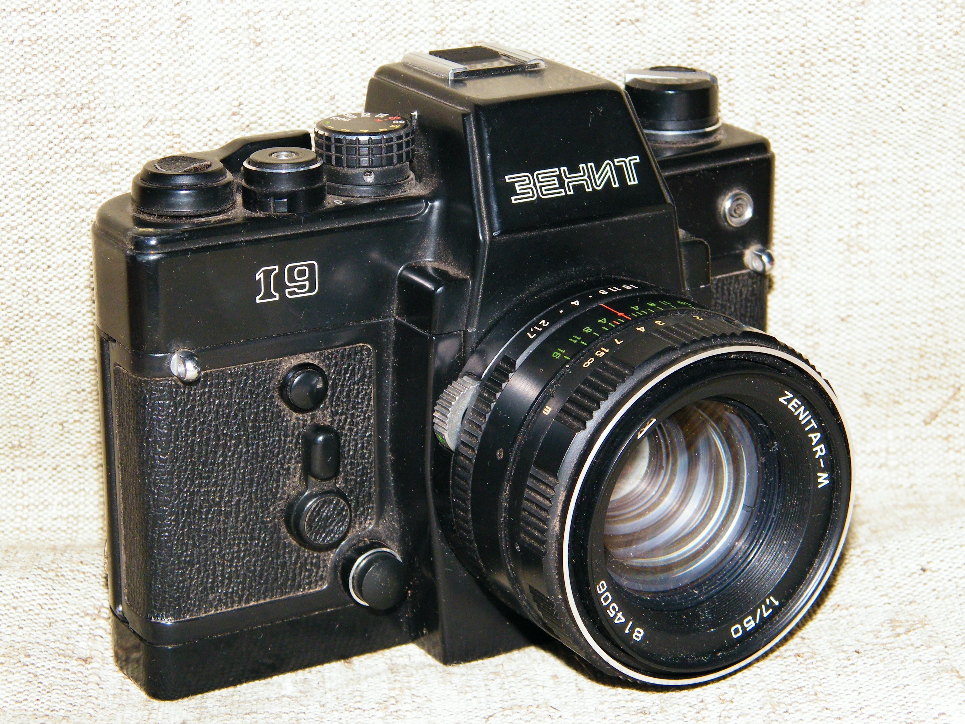 Фотоаппарат "Зенит-19" с объективом "Зенитар-М"